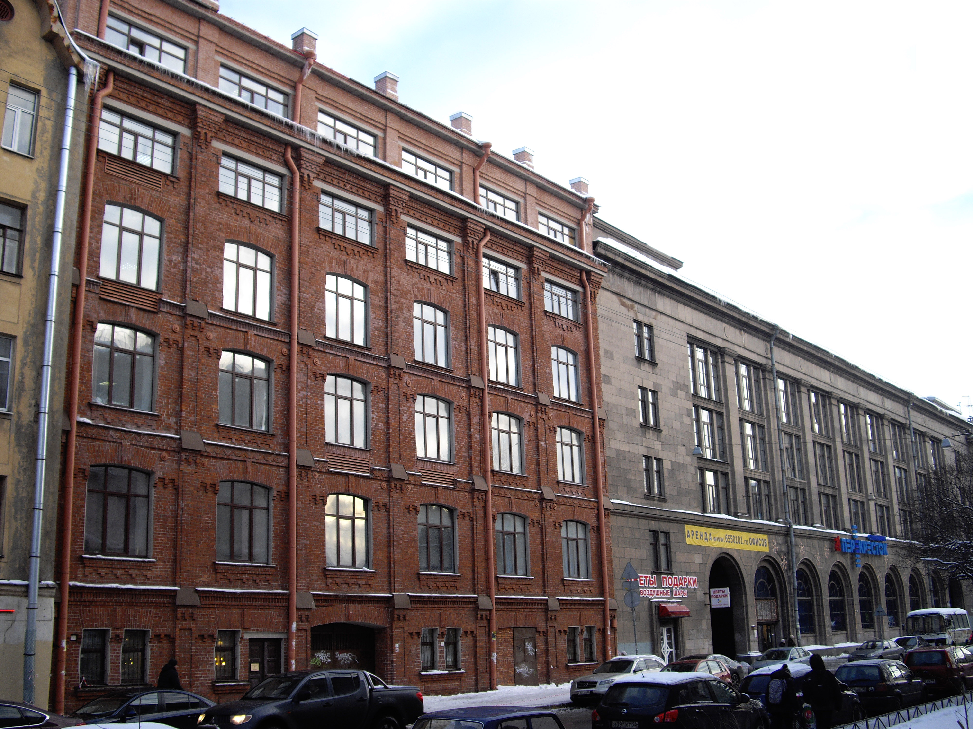 Kronverkskaya Street, buildings 5 (right) and 7 (left), Saint Petersburg, Russia.